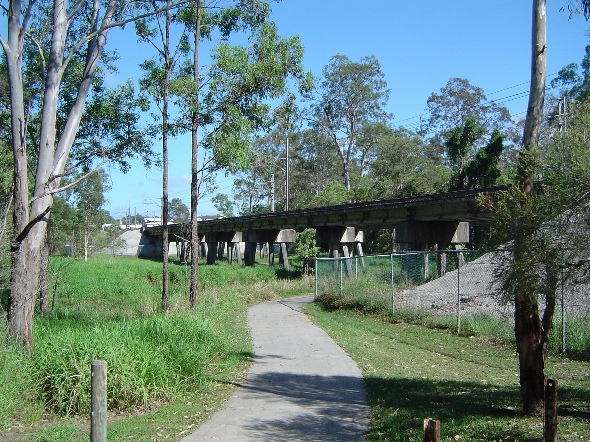 Photo of Scrubby Creek, Beenleigh railway line and the Scrubby Creek bridge crossing in Kingston, City of Logan, Queensland, Australia.